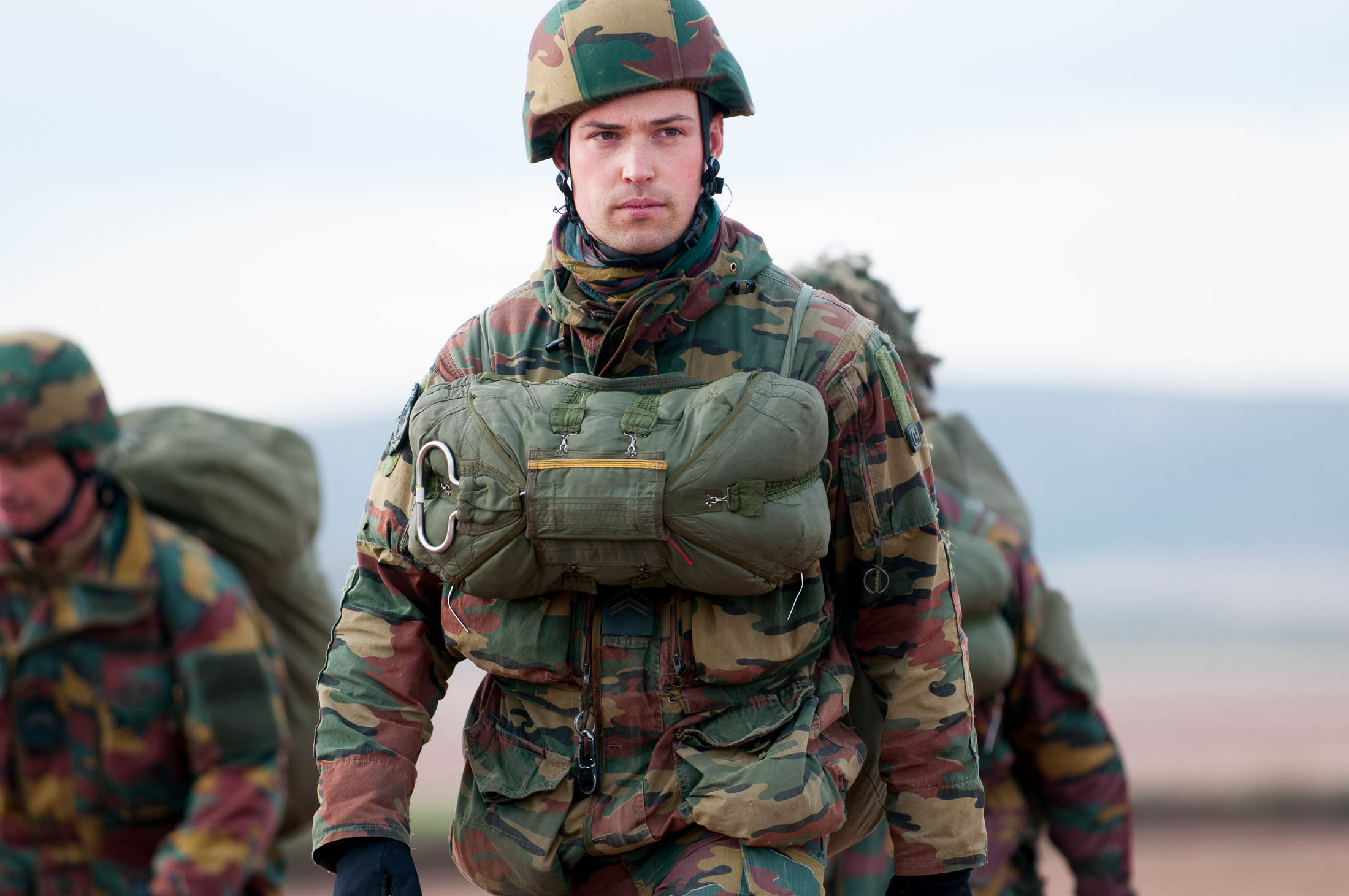 Paratroopers of 2nd Commando Battalion, Belgian Para-Commando Regiment, successfully jump during an airborne operation at Trident Juncture 2015 in Chinchilla, Spain on October 23, 2015 (U.S. Army photo by Capt. Jeku Arce 30th Medical Brigade Public Affairs).